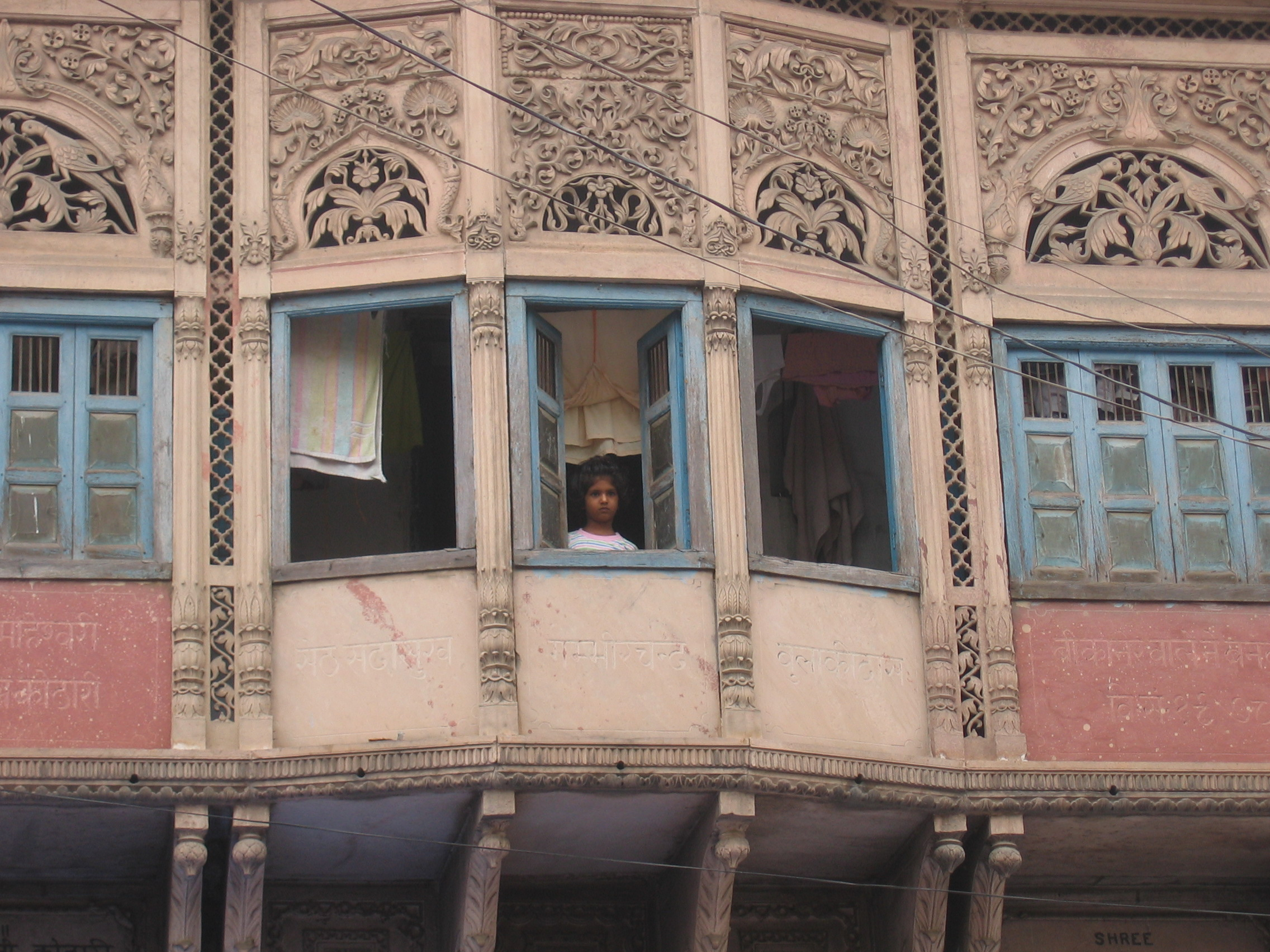 Architectural details of a Dharamshala, estb. 1822, Haridwar.